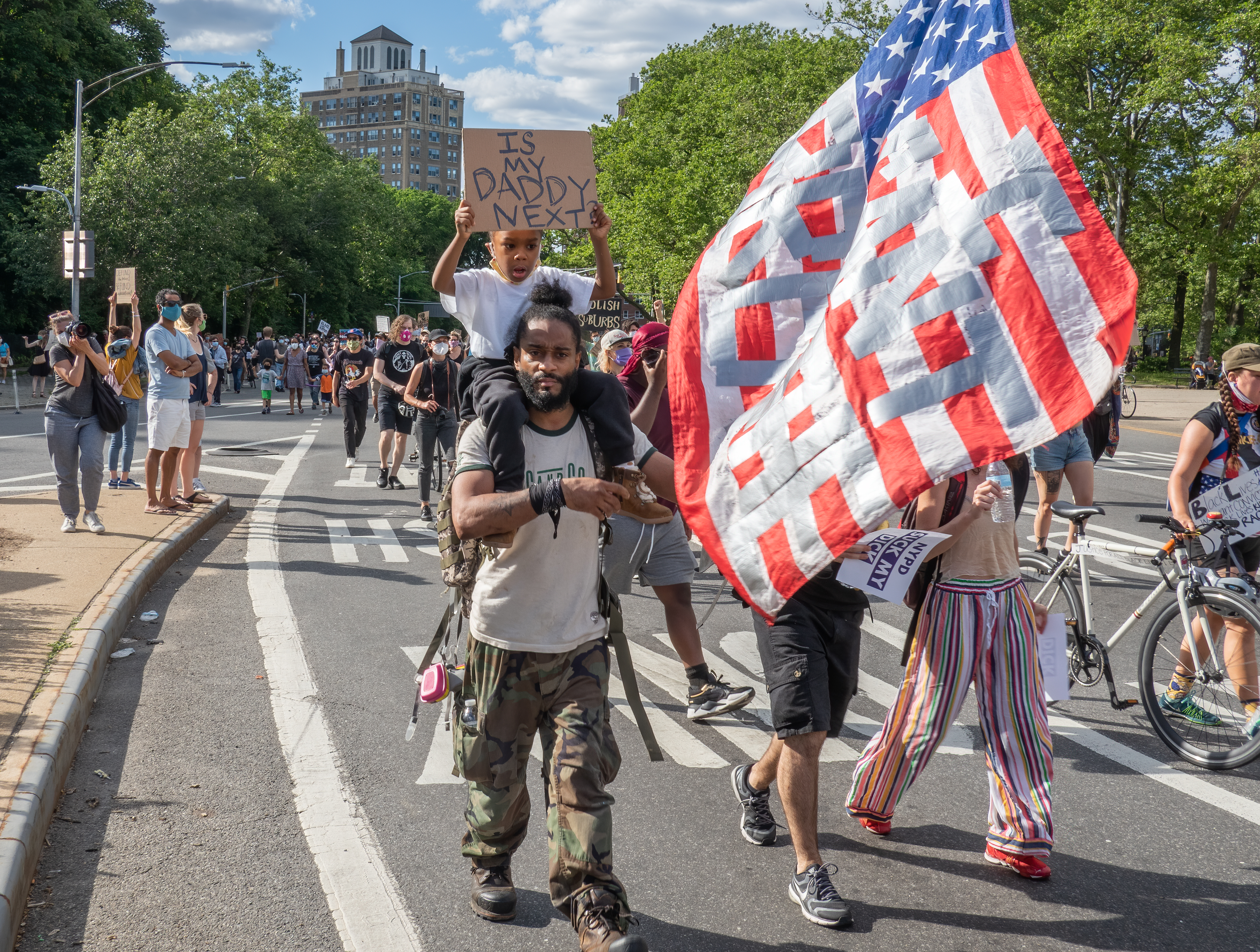 George Floyd protest in Grand Army Plaza, June 7, 2020